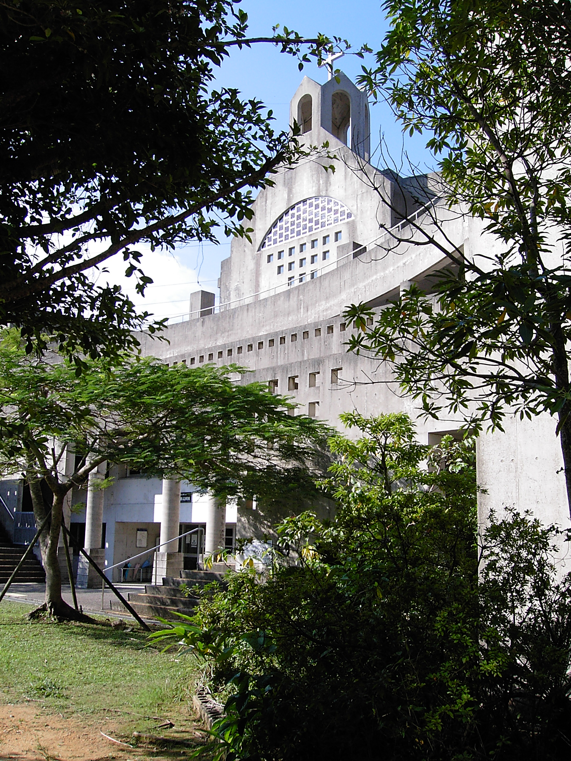 View of the chapel at Okinawa Christian University and Okinawa Christian Junior College